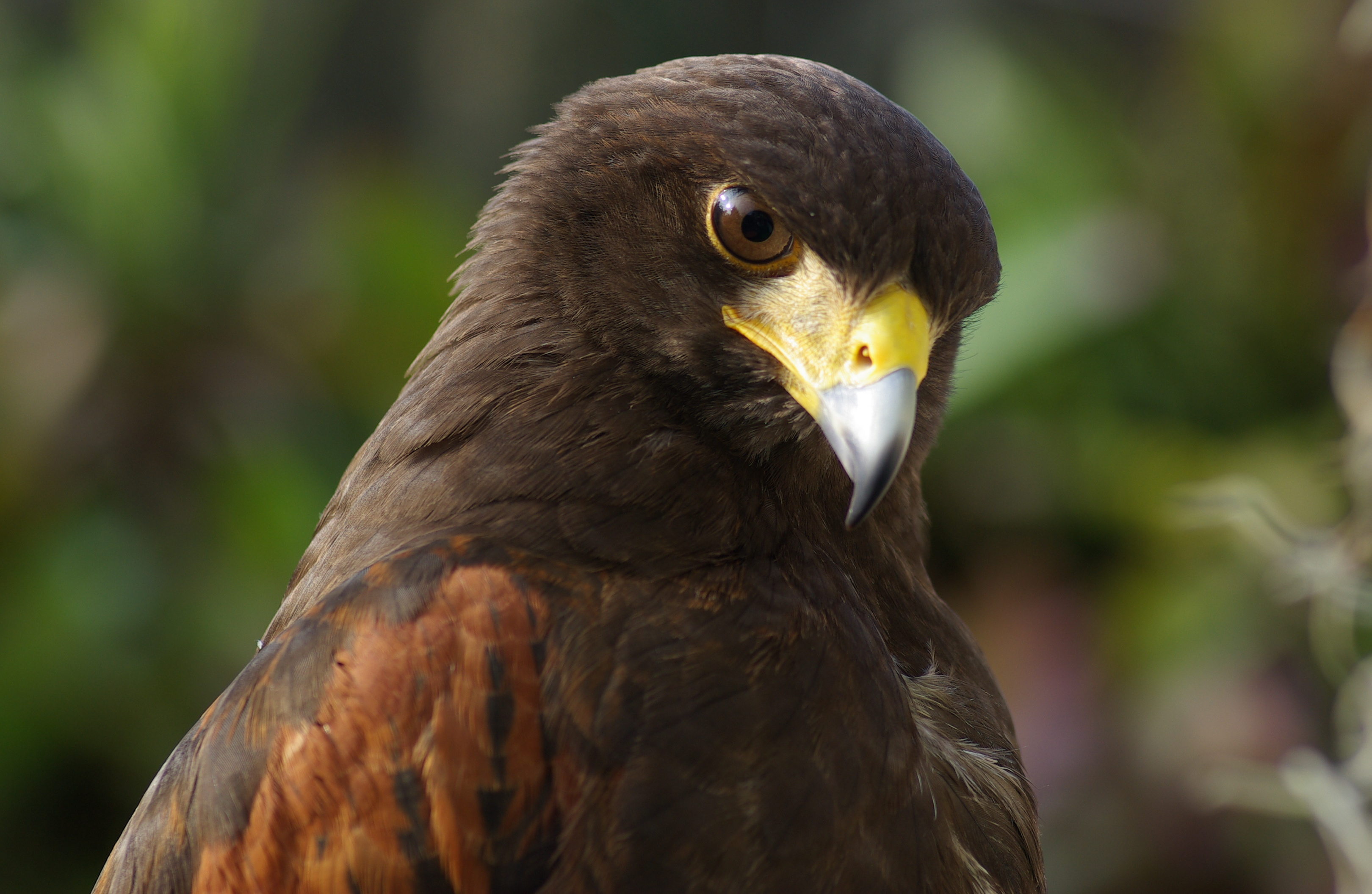 Harris Hawk